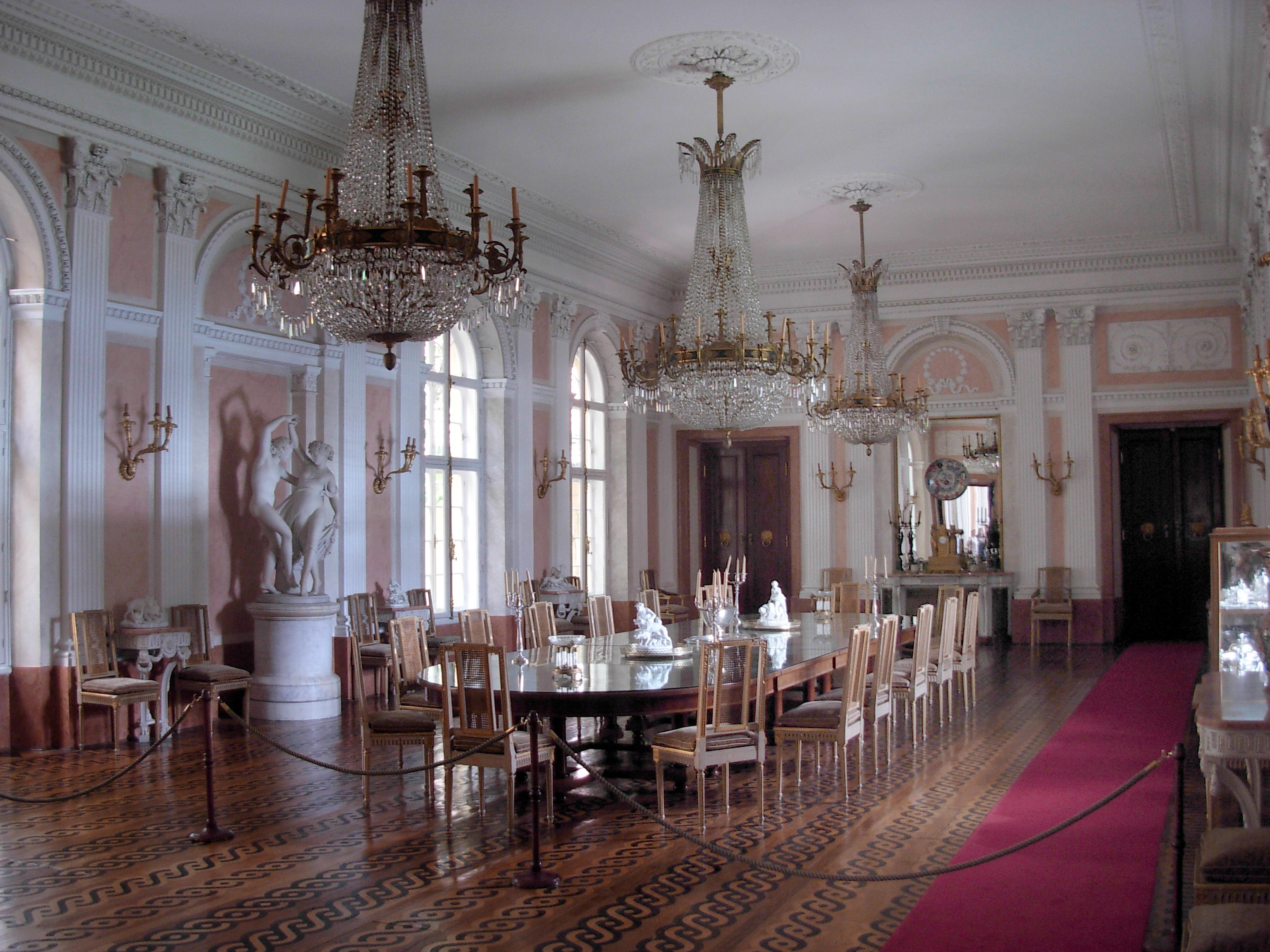 Łańcut Castle and neighbourhood. Many photos courtesy of Łańcut Museum staff.